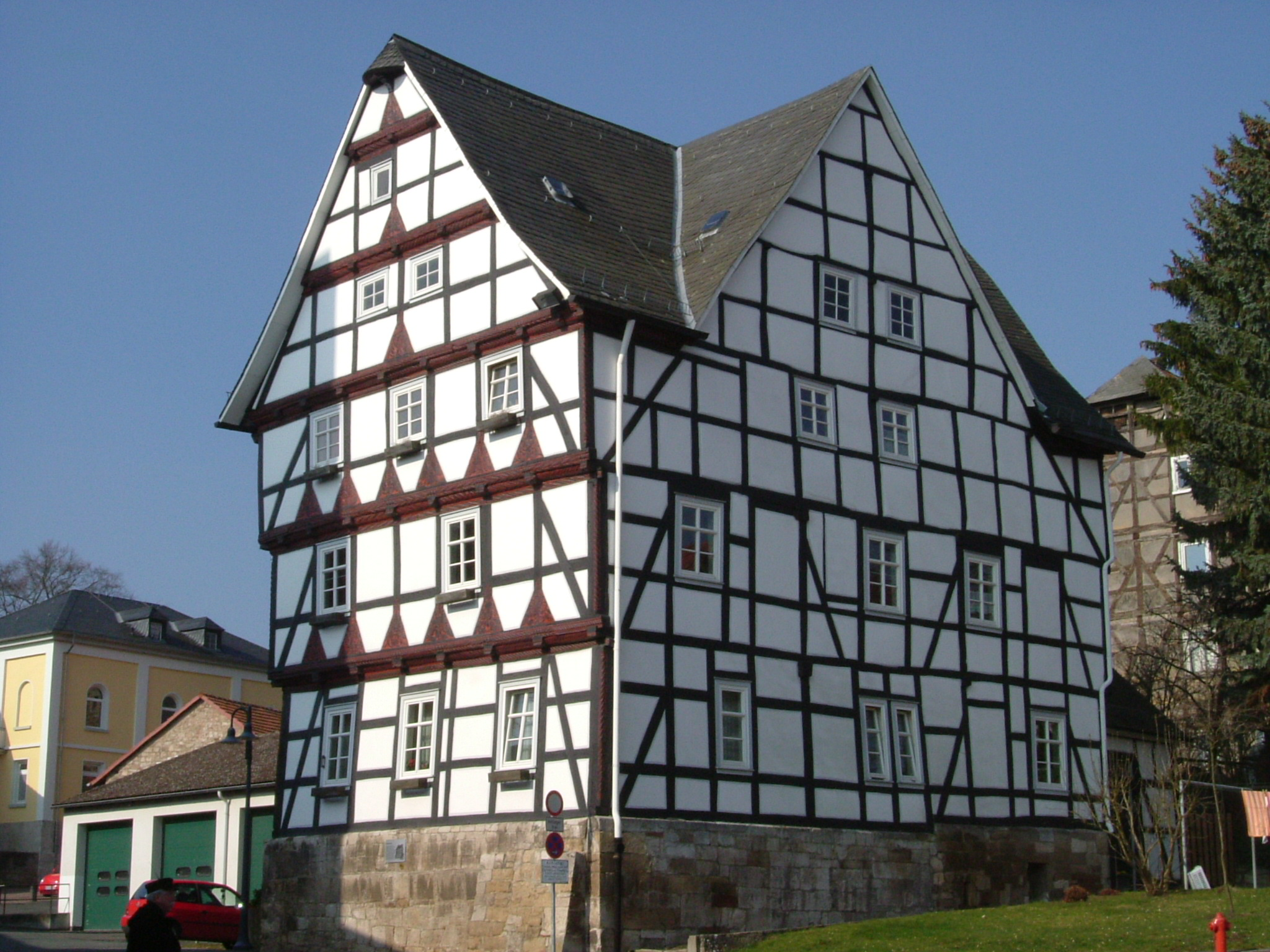 Korbach, Germany. Old house. Author: Peter Kaboldy, 03.2007.